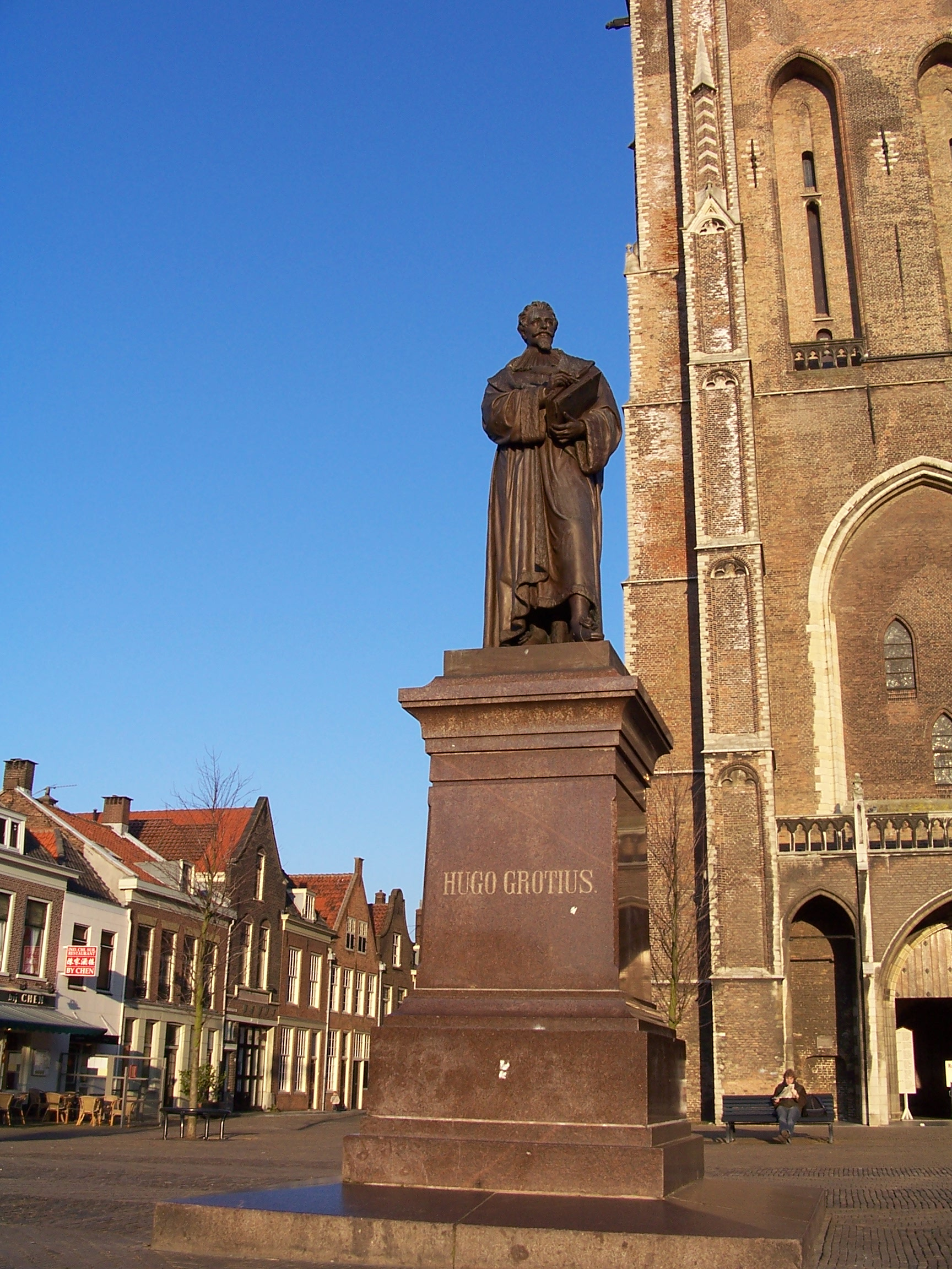 Statue of Hugo Grotius in Delft (1886) by Franciscus Leonardus Stracké (1849-1919)